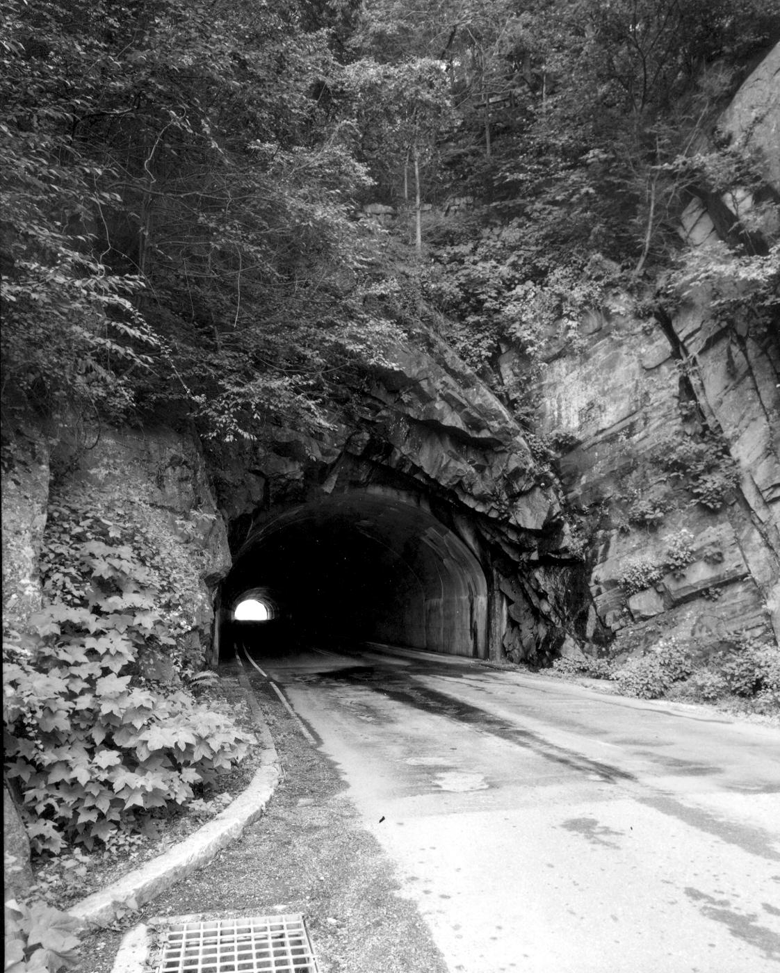 Taken from - as a product of the federal government, it's in the public domain